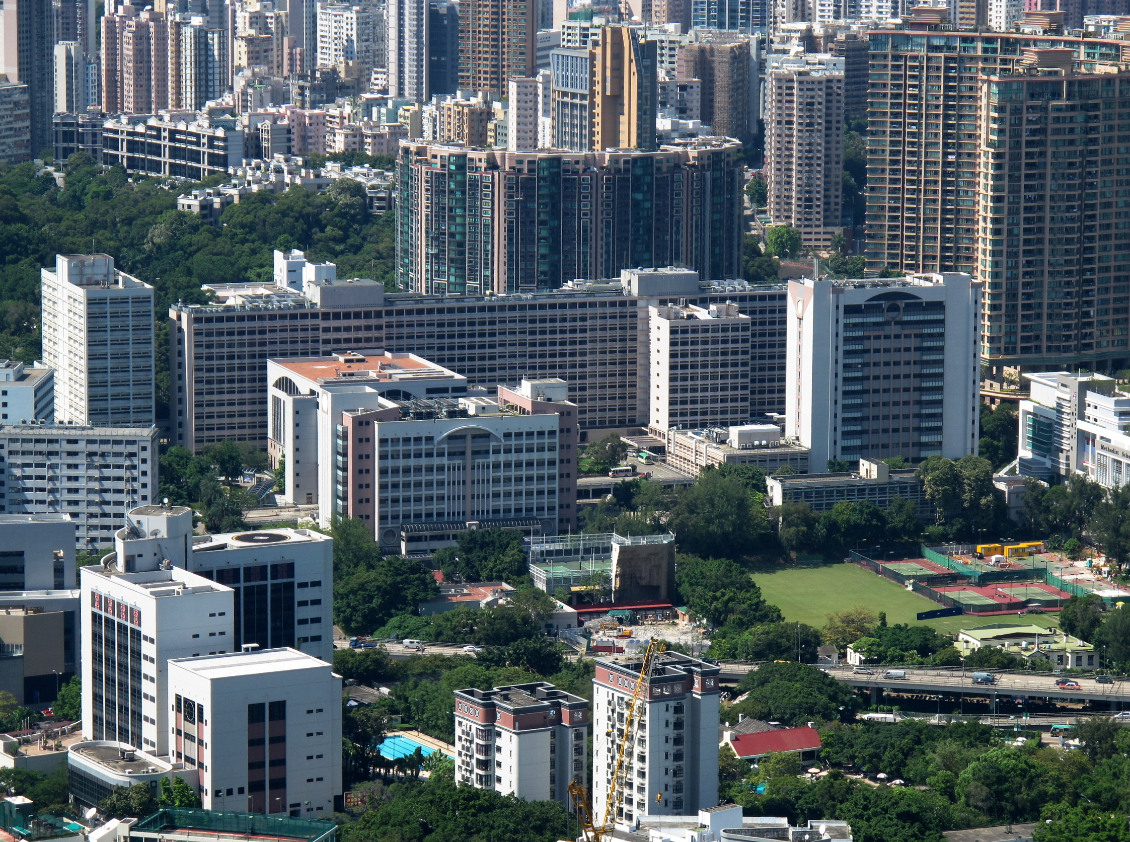 Queen Elizabeth Hospital 伊利沙伯醫院